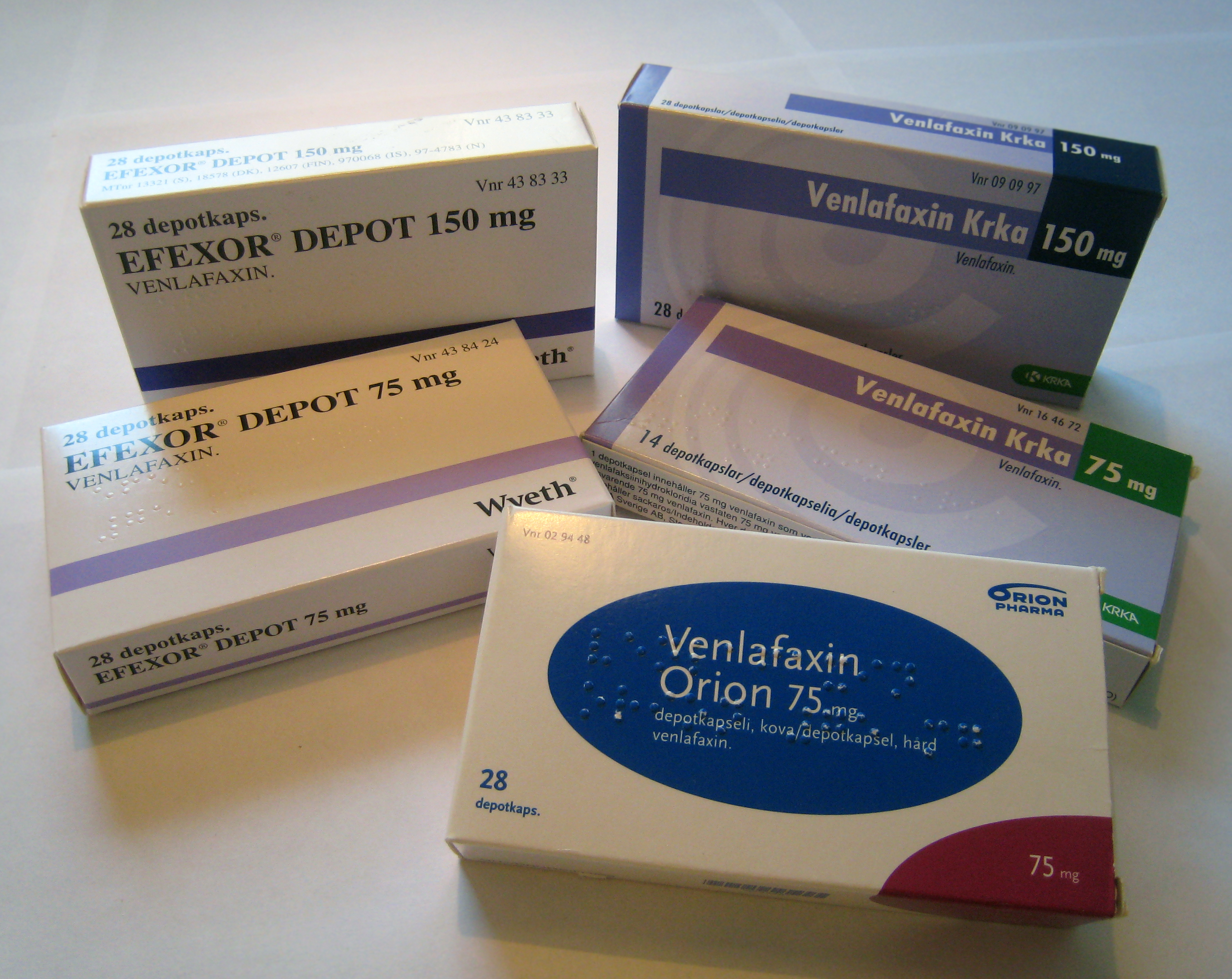 Venlafaxine